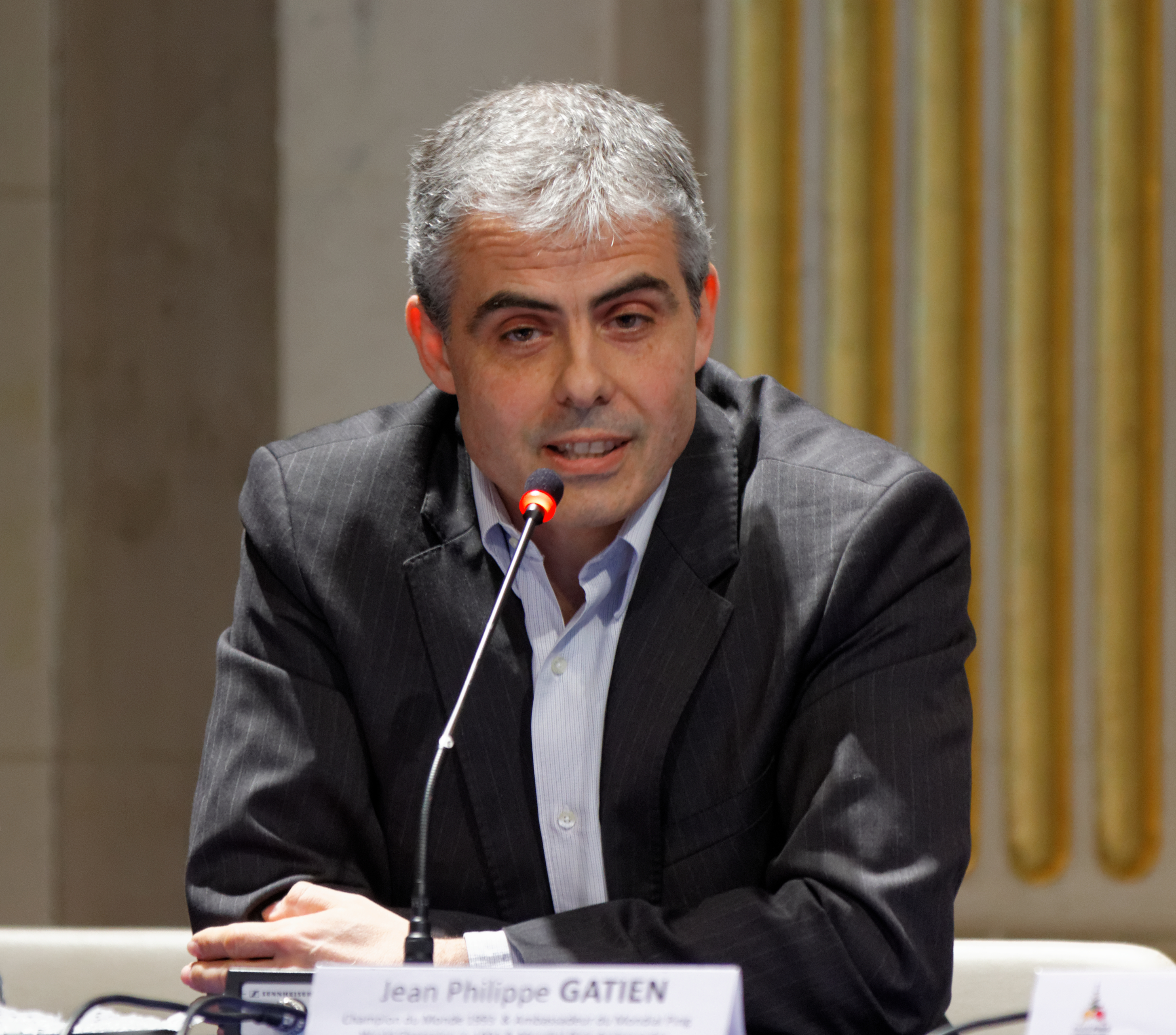 Championnats du monde de tennis de table, Paris. Conférence de presse et tirage au sort.